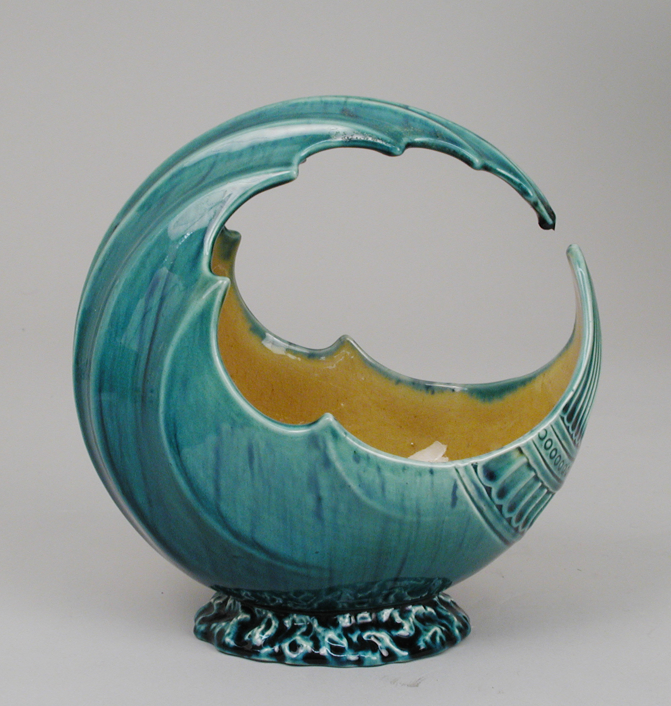 British, Linthorpe, Yorkshire; Wave bowl; Ceramics-Pottery